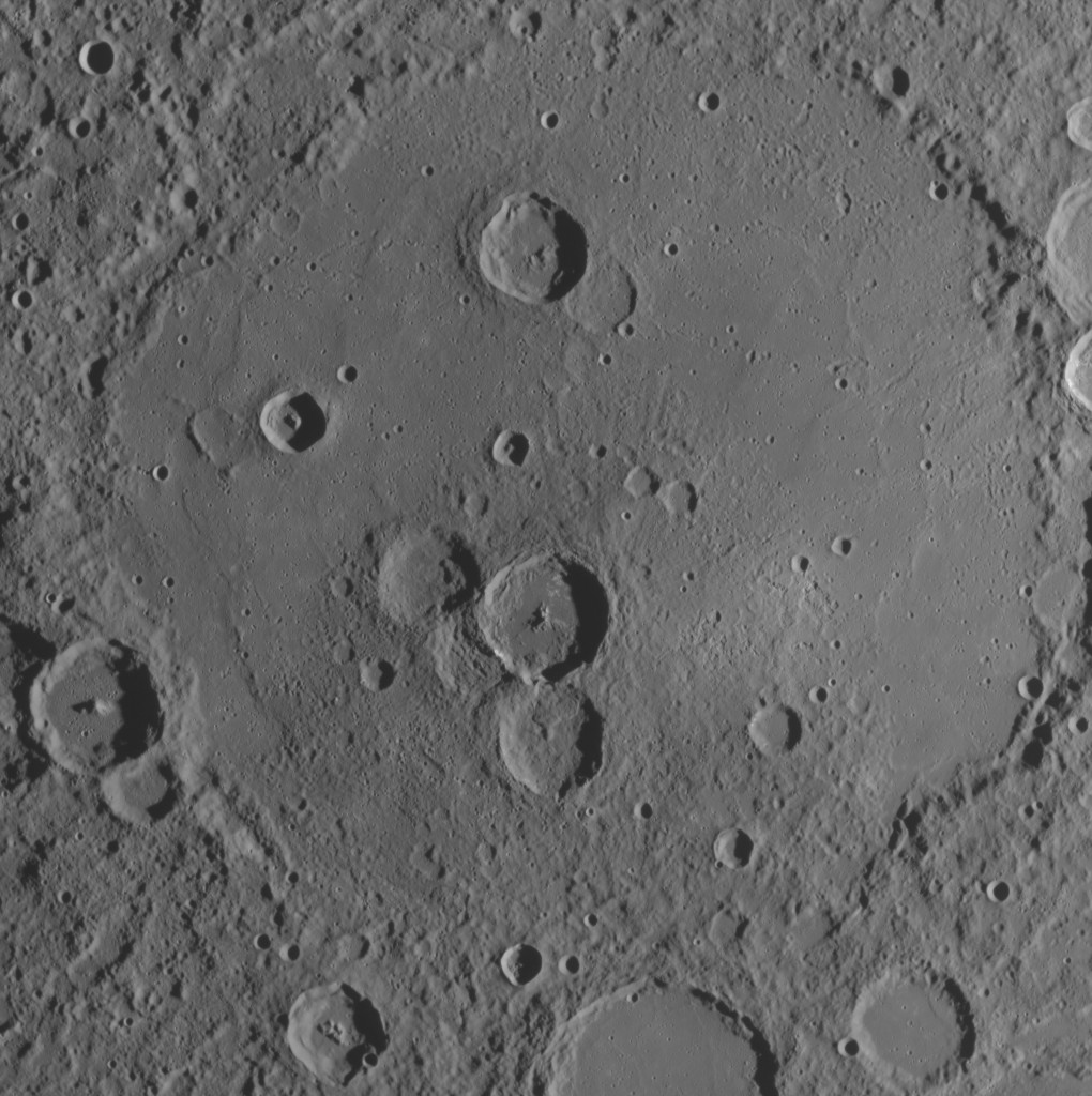 Raphael crater on Mercury. MESSENGER Wide Angle Camera image. Approximate north is up. Width is approximately 367 km. Emission Angle: 0.6 Incidence Angle: 77.8 Latitude: -20.8 Longitude: 283.3 Phase Angle: 78.4